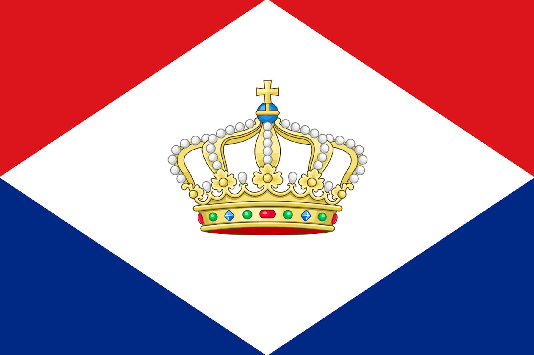 Batavian Oil Company logo